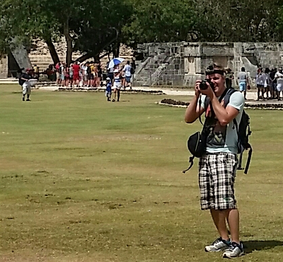 Tourist taking photographs and video at archaelogical site